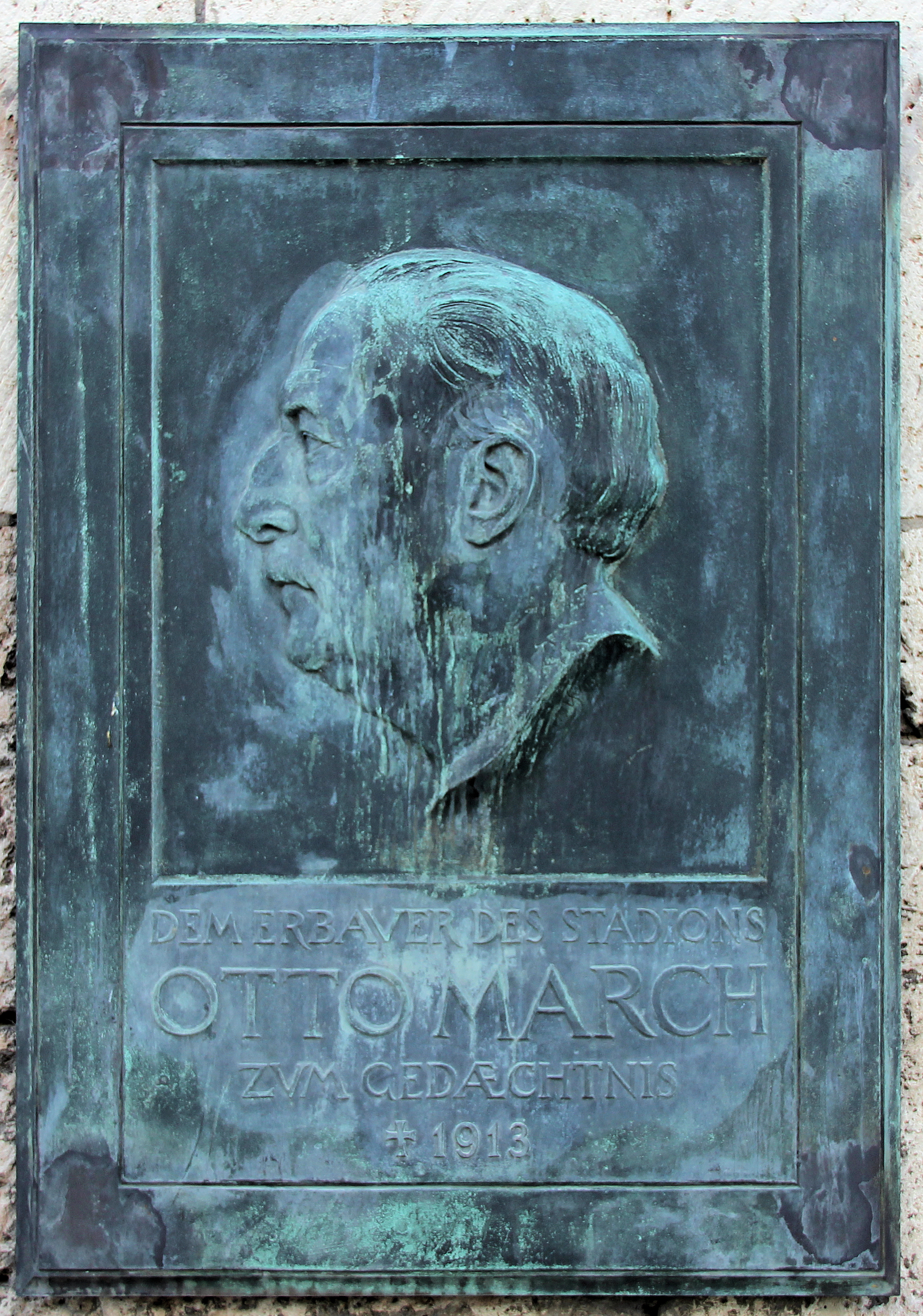 Memorial plaque, Otto March, Olympischer Platz 4, Berlin-Westend, Germany Koordinate:52°30′54″N 13°14′34″E / 52.515°N 13.24278°E